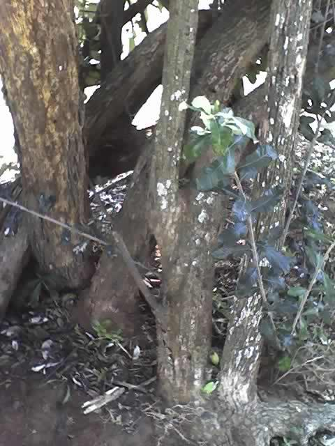 Brachylaena discolor multi-stem